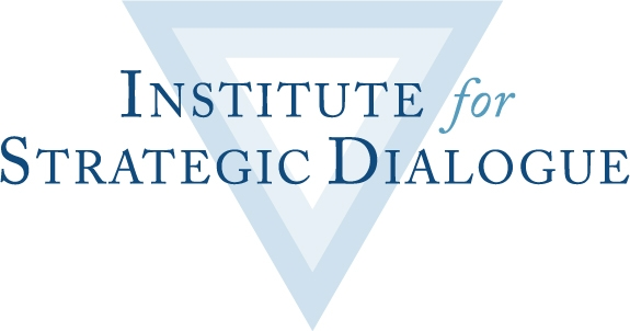 Institute for Strategic Dialogue logo